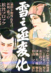 Movie poster for 1935 Japanese movie Yukinojō Henge (雪之丞変化 Yukinojō Henge).